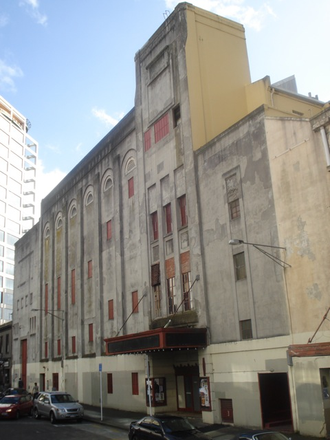 St James Theatre, Auckland. Lorne Street side of the building